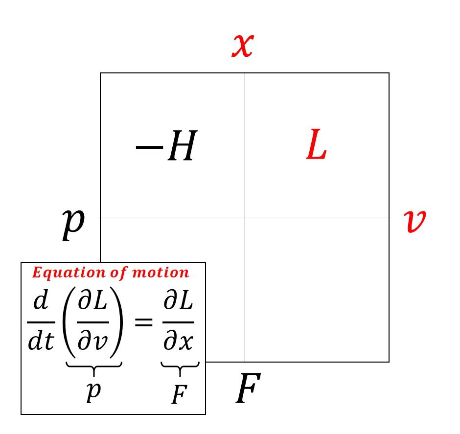 Lagrangian and Equation of motion (using Thermodynamic square)